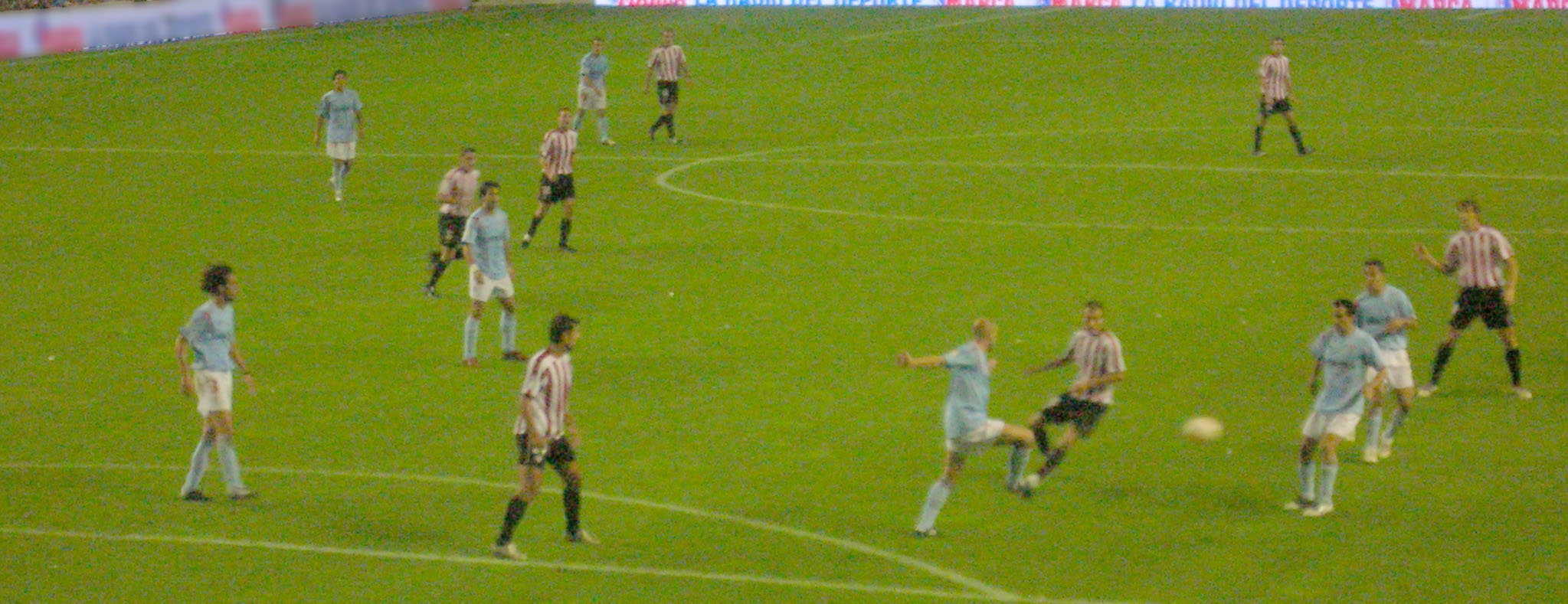 Description: Ismael Urzaiz, Fran Yeste and other players in the Athletic Club de Bilbao - Real Club Celta de Vigo SAD football match in San Mamés Cathedral, Bilbao, Biscay, Spain. Taken from Grada Norte / Grada de la Misericordia. Photographer: Javier Mediavilla Ezquibela Date: October 29, 2005.